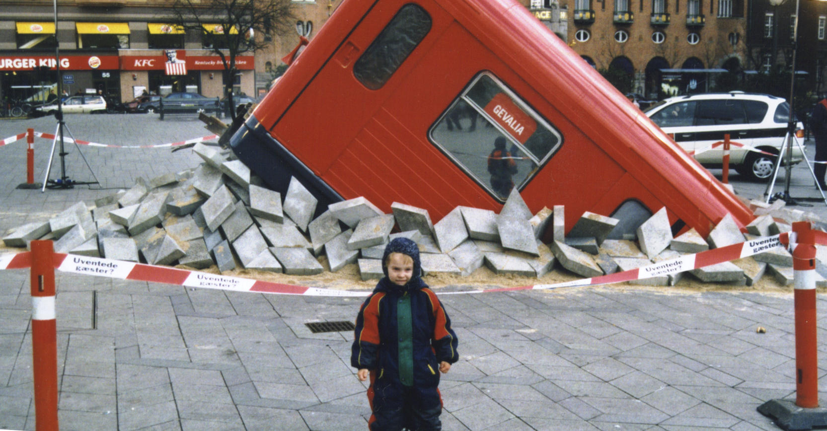 An April fool in Denmark, regarding Copenhagen's new subway. It looks as if one of its cars had an accident, and had broken through and surfaced on the square in front of the town hall. In reality, it was a retired car from the subway of Stockholm cut obliquely, with the front end placed onto the tiling and loose tiles scattered around it. Note the sign "Gevalia" (a coffe company) and the accident site tape with the words "Uventede gæster?" (unexpected guests?). Gevalia's advertising featured various vehicles popping up with unexpected guests.